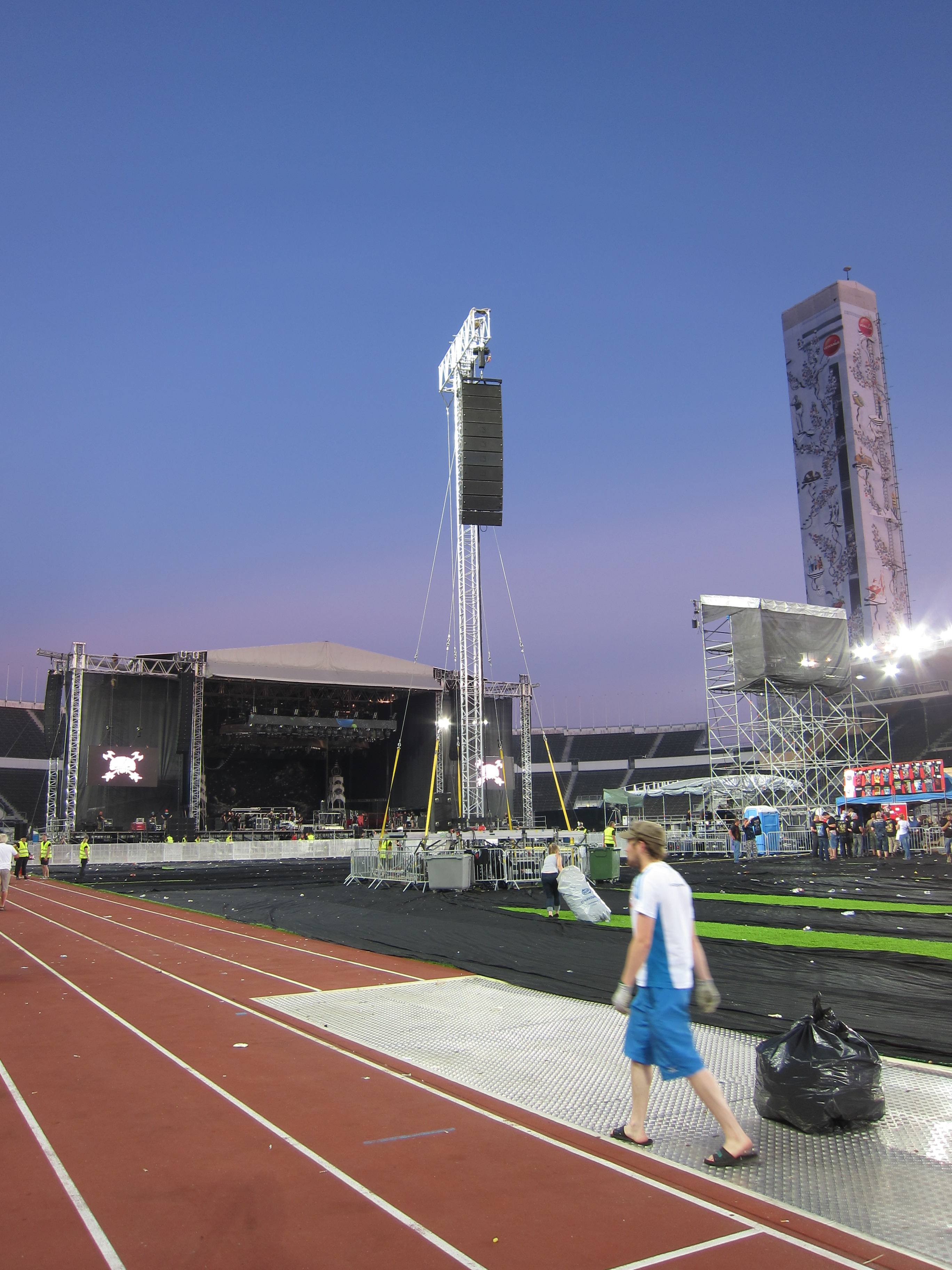 Iron Maiden performing at the Helsinki Olympic Stadium in Helsinki, Finland.